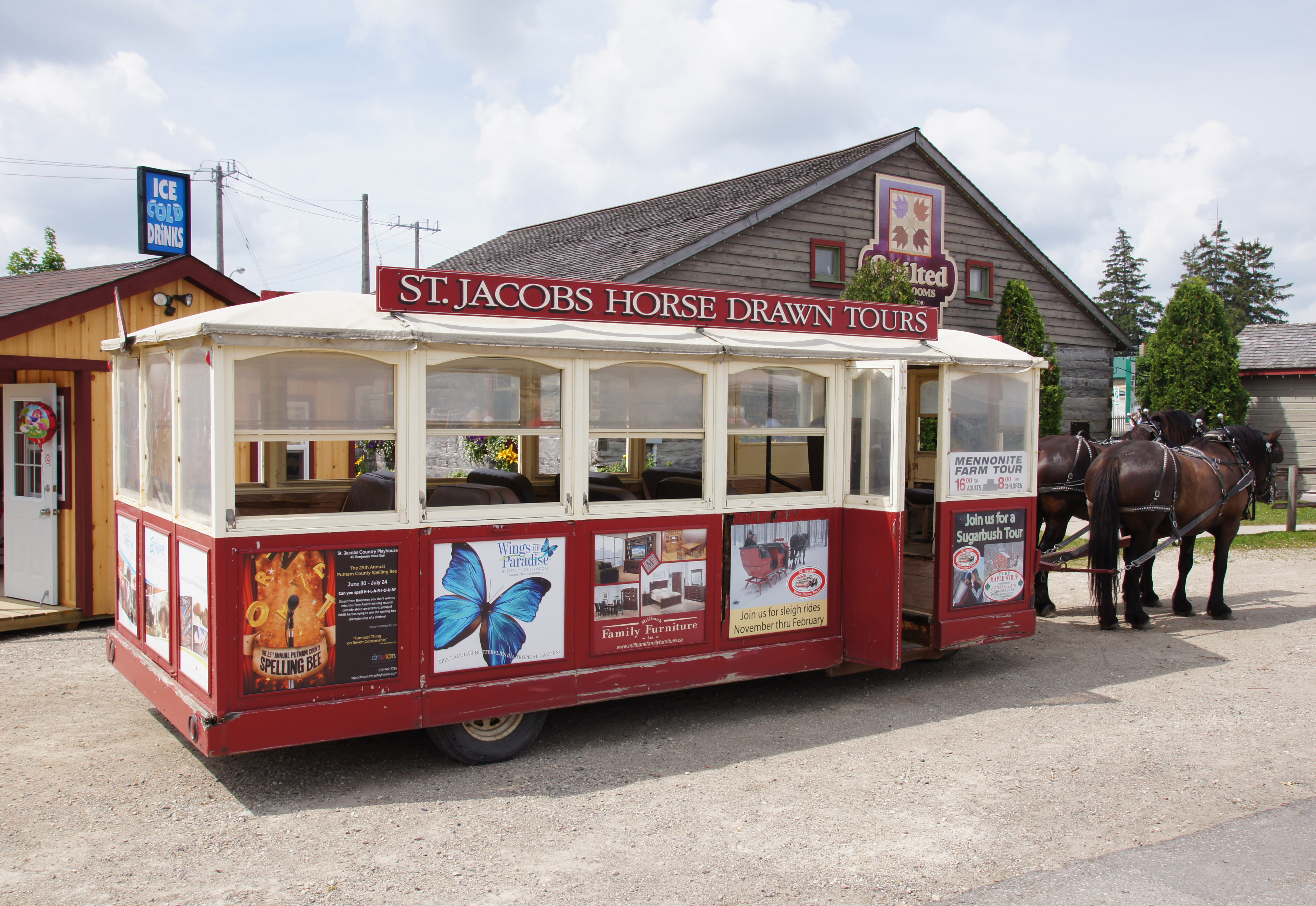 St. Jacobs Horse Drawn Tours. St. Jacobs, Ontario, Canada.